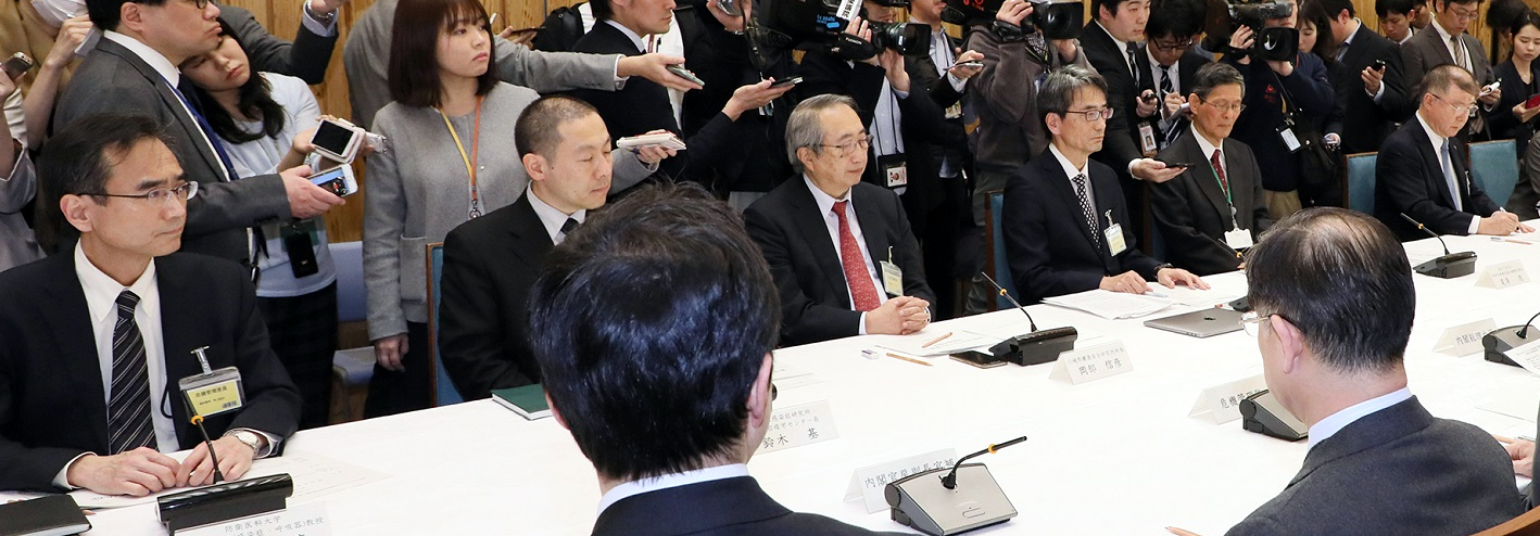 Takaji Wakita, Chairman of the Novel Coronavirus Expert Meeting, Novel Coronavirus Response Headquarters, Shigeru Omi, Vice-Chairman of the Novel Coronavirus Expert Meeting, Novel Coronavirus Response Headquarters, Nobuhiko Okabe, Satoshi Kamayachi, Akihiko Kawana and Motoi Suzuki, Members of the Novel Coronavirus Expert Meeting, Novel Coronavirus Response Headquarters, attended a meeting of the Novel Coronavirus Expert Meeting, Novel Coronavirus Response Headquarters at the Prime Minister's Official Residence in Chiyoda Ward, Tōkyō Metropolis on February 16, 2020.